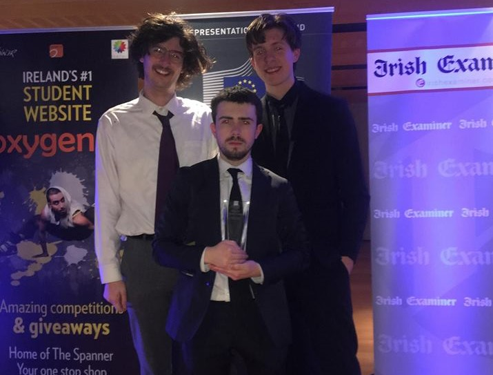 winners of 2019 journalist smedia